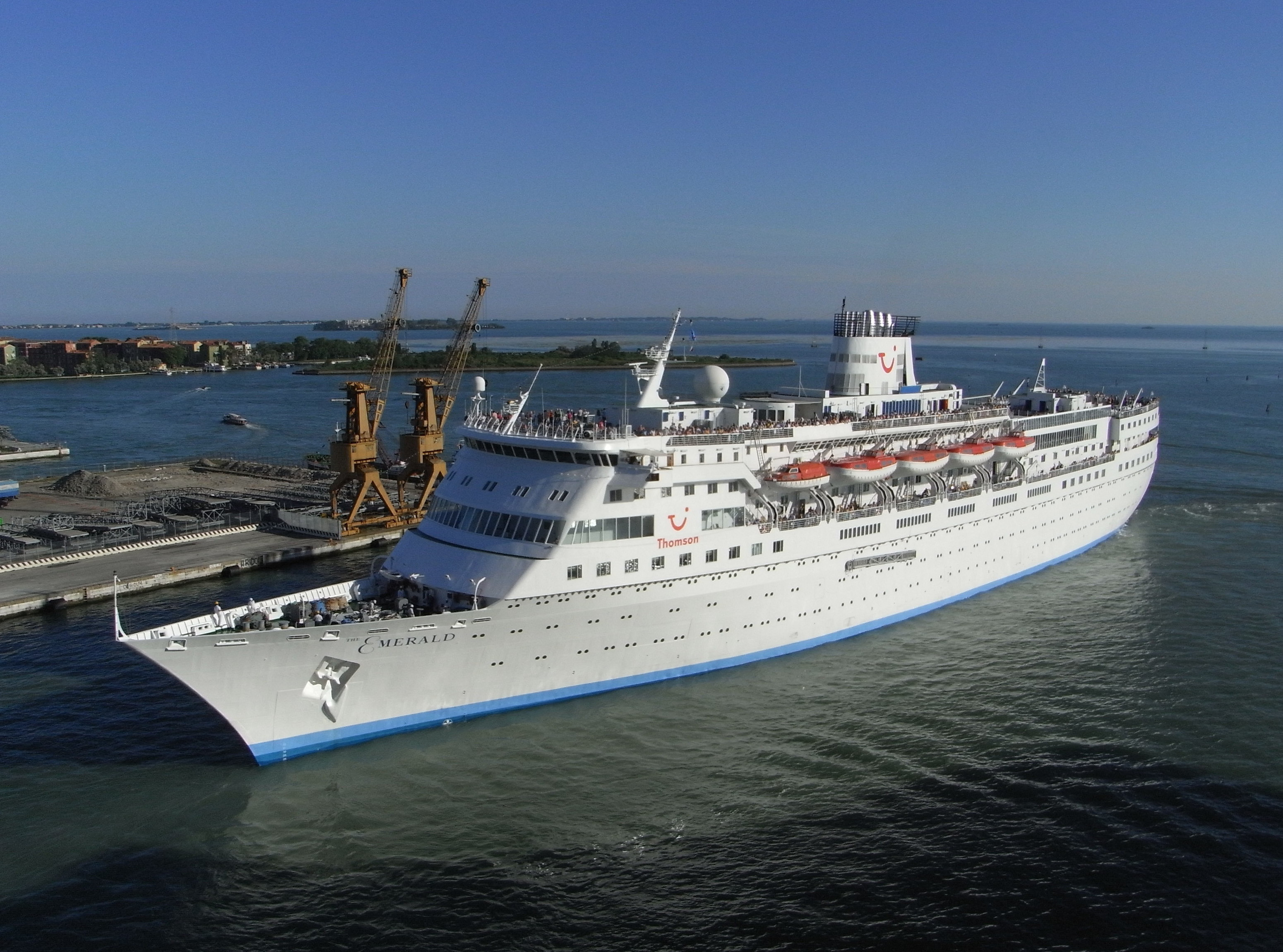 Steamship The Emerald leaving Venice. One of the last steam turbine powered passenger vessels in the world. IMO Number: 5312824 MMSI Number: 239942000 Callsign: SVNZ Length: 183 m Beam: 26 m